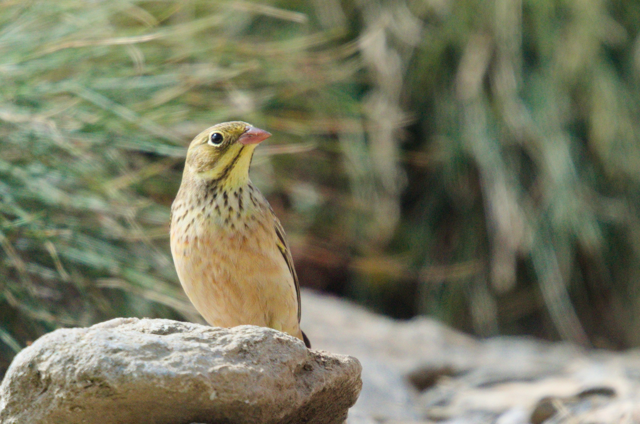 ortolan